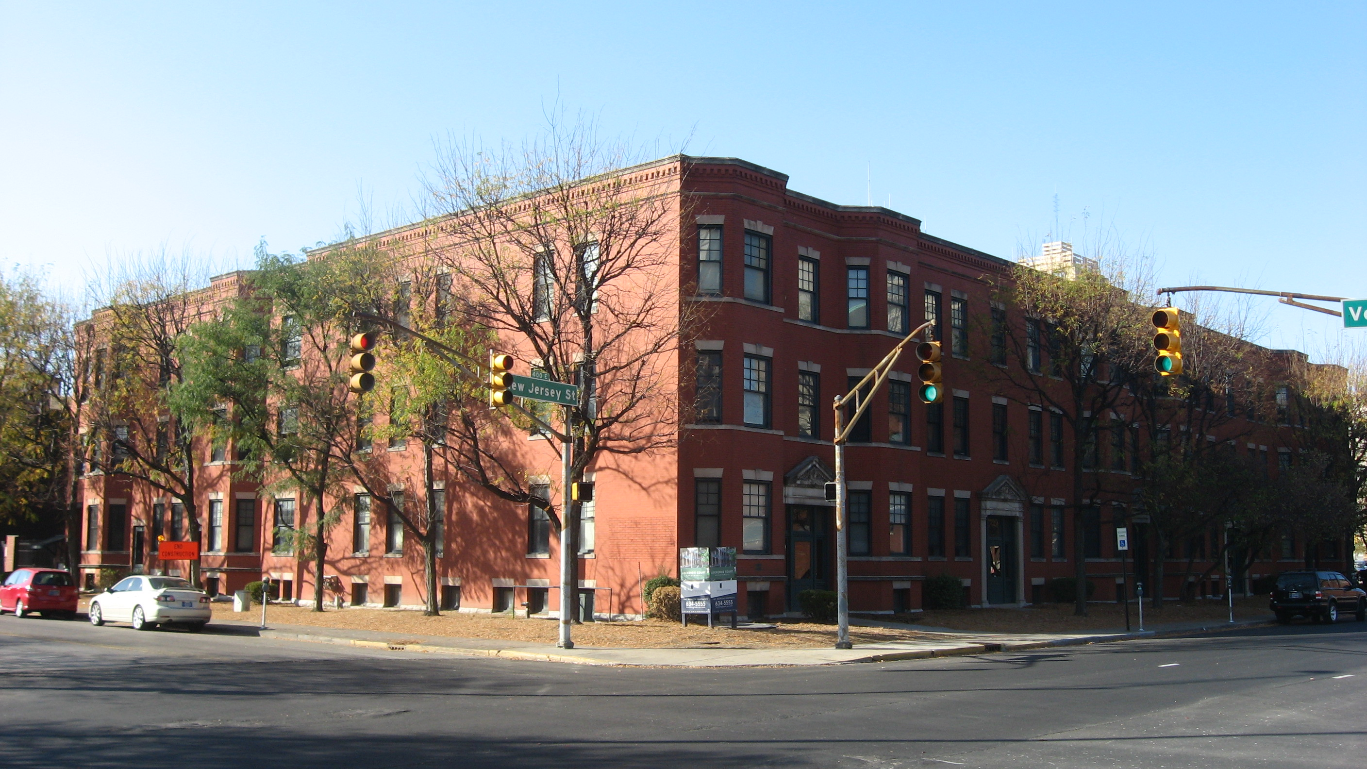 Southern and eastern sides of The Alexandra, located on the northwestern corner of the intersection of New Jersey and Vermont Streets in Indianapolis, Indiana, United States. Built in 1902, it is listed on the National Register of Historic Places.